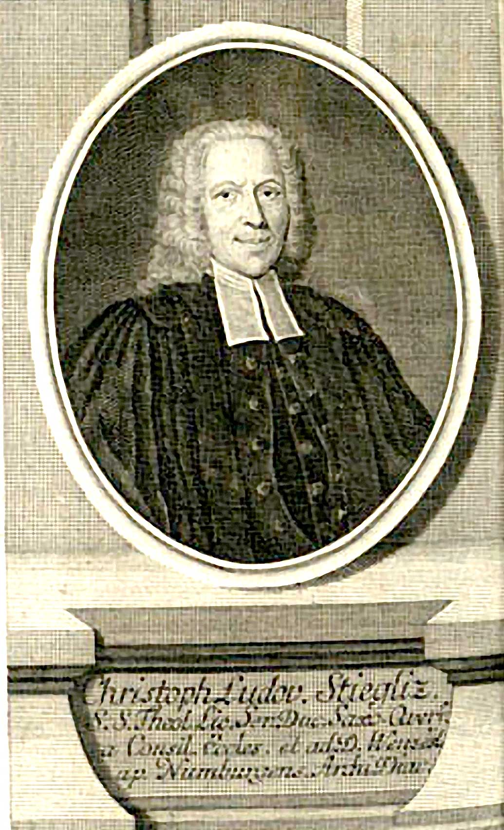 Christoph Ludwig Stieglitz (1687-1768) protestant-lutheran theologian